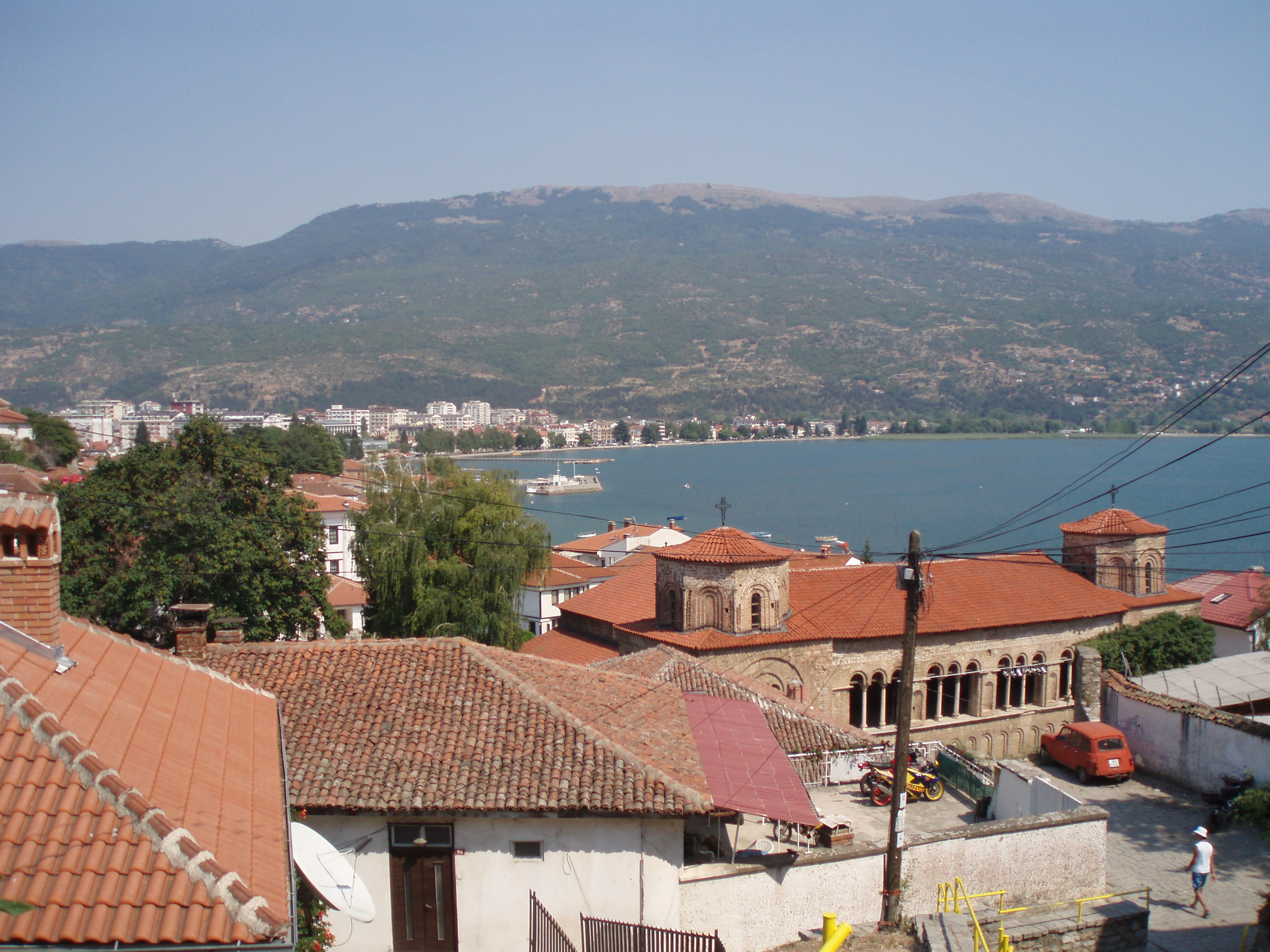 Ohrid in Republic of Macedonia, the old city with Church Saint Sophia and behind Lake Ohrid